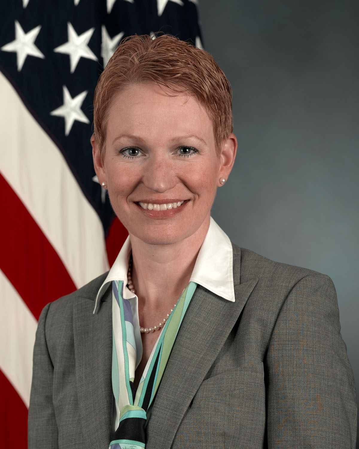 US Department of Defense portrait of Celeste A. Wallander, Deputy Assistant Secretary of Defense for Russia/Ukraine/Eurasia.